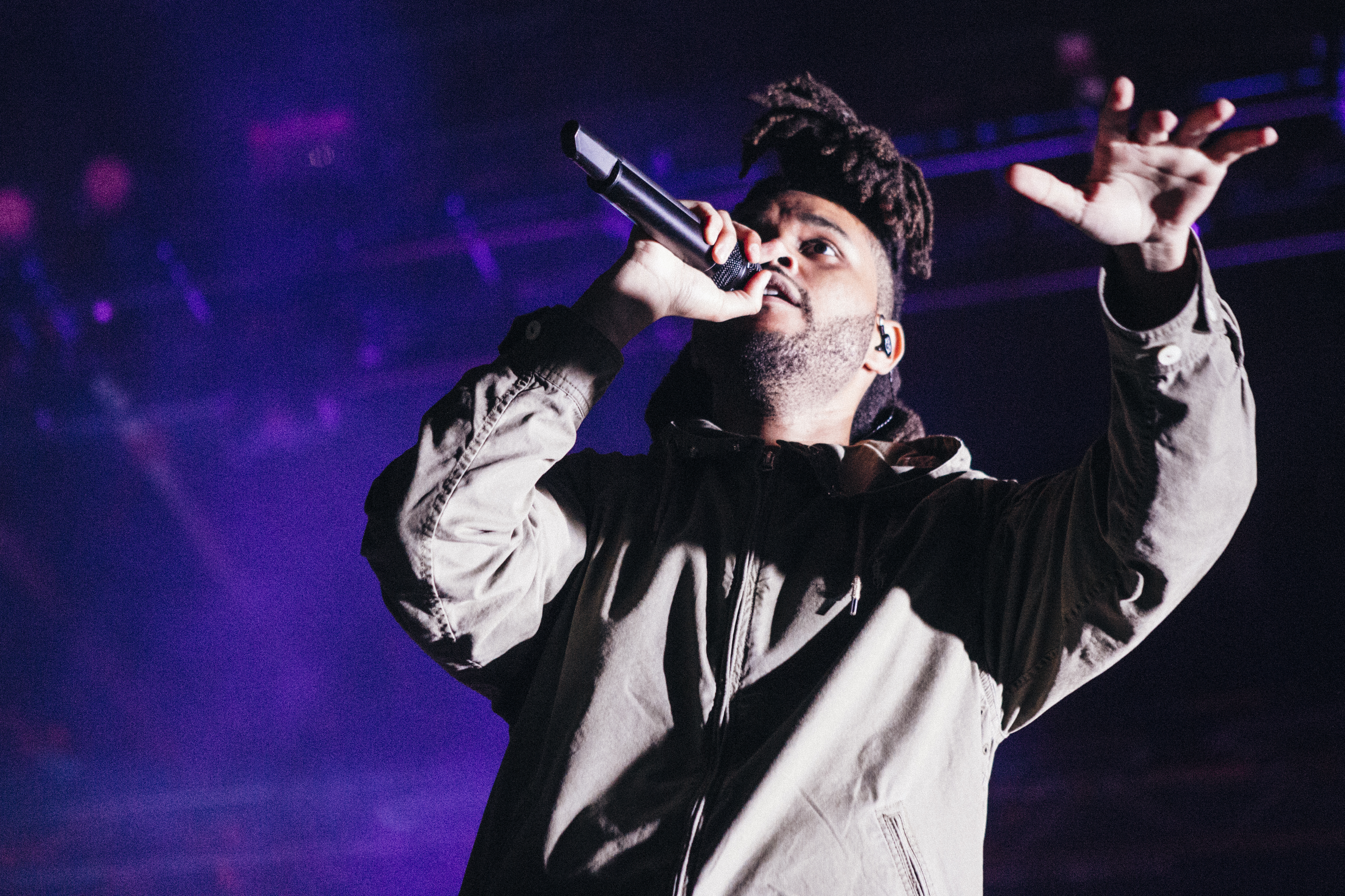 The Weeknd in Bumbershoot Festival 2015, Seattle